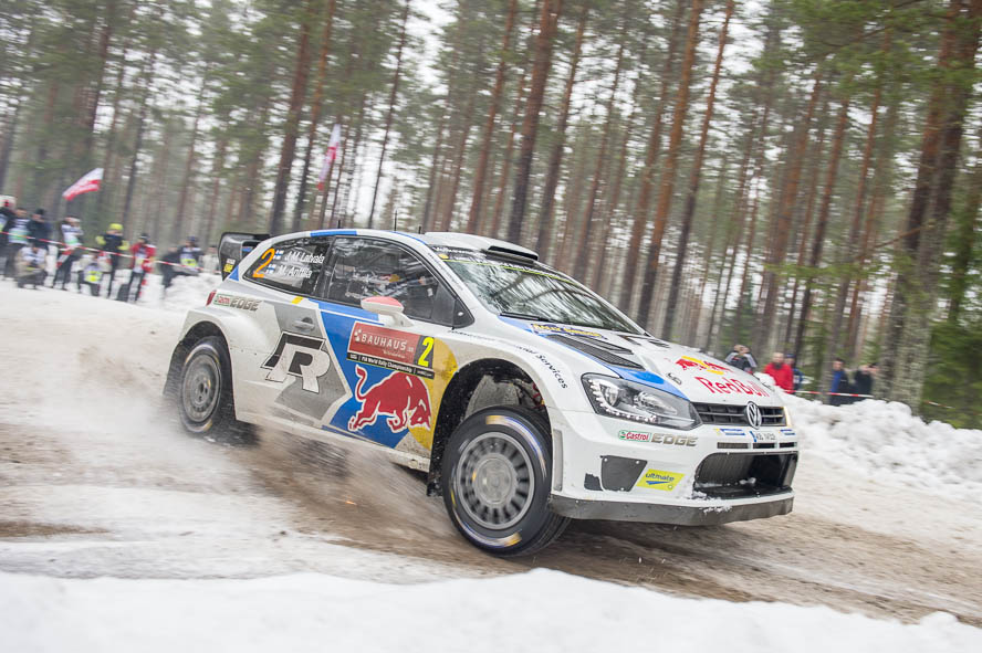 Rally Sweden 2014 Fredriksberg 1,Jari-Matti Latvala,Mikka Anttila,Motorsport,Rally,Rally Sweden,Rallye,Rallye Schweden,SS9,VW Polo R WRC,Volkswagen Motorsport,Volkswagen Polo R WRC,WP9